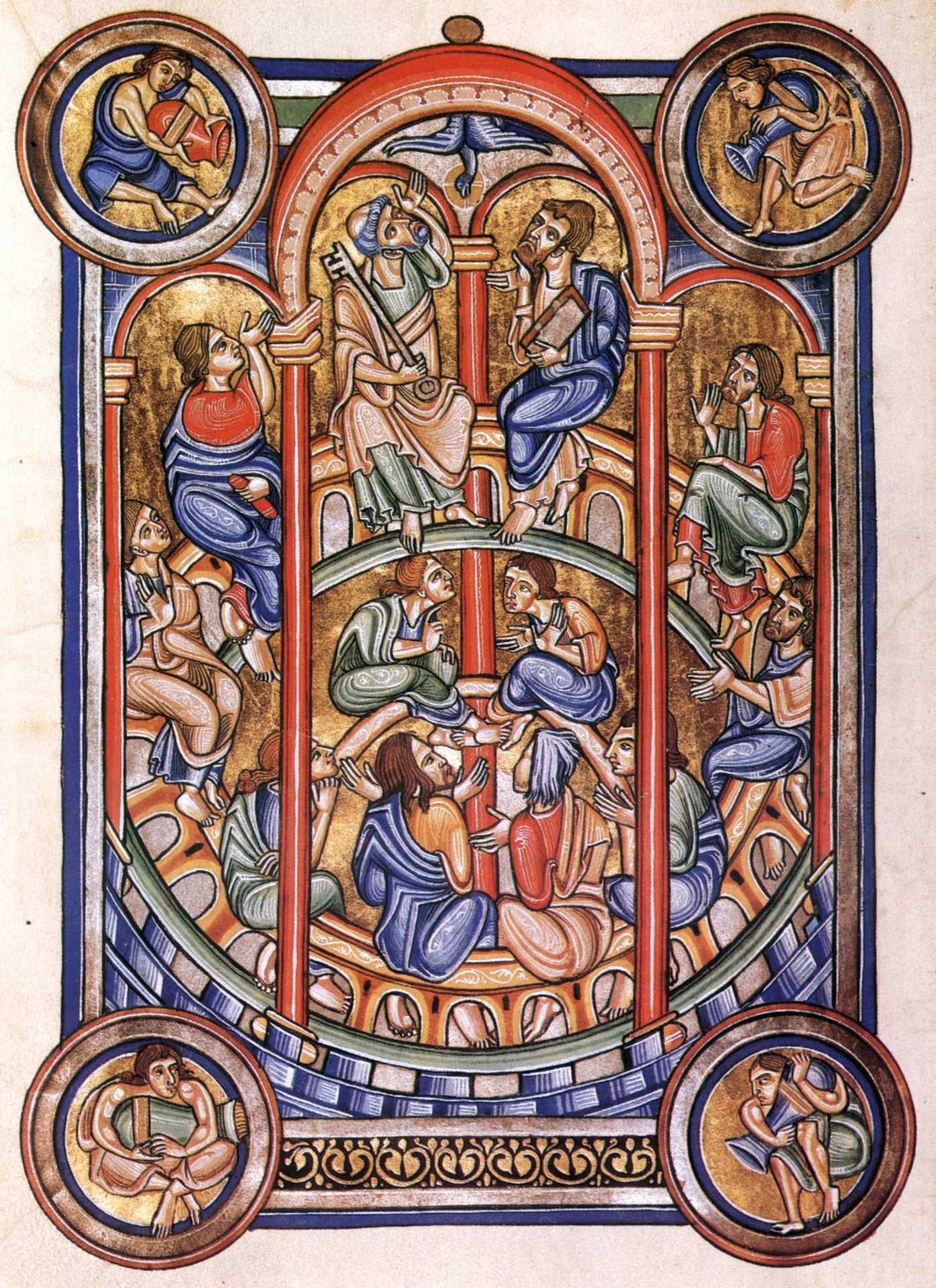 The Miracle of Pentecost, miniature, Berthold Sacramentary (c.1215 -1217), New York, The Pierpont Morgan Library, MS M. 710, fol. 64f